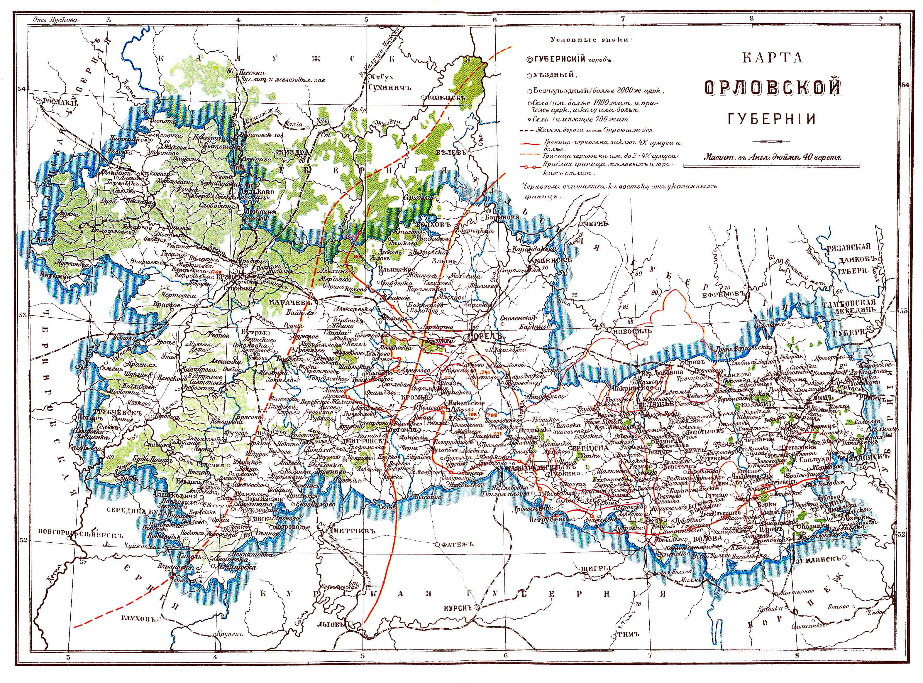 Illustration from Brockhaus and Efron Encyclopedic Dictionary (1890—1907)